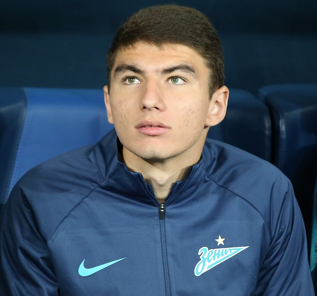 Leon Musayev with FC Zenit Saint Petersburg during Europa League game against Fenerbahçe.